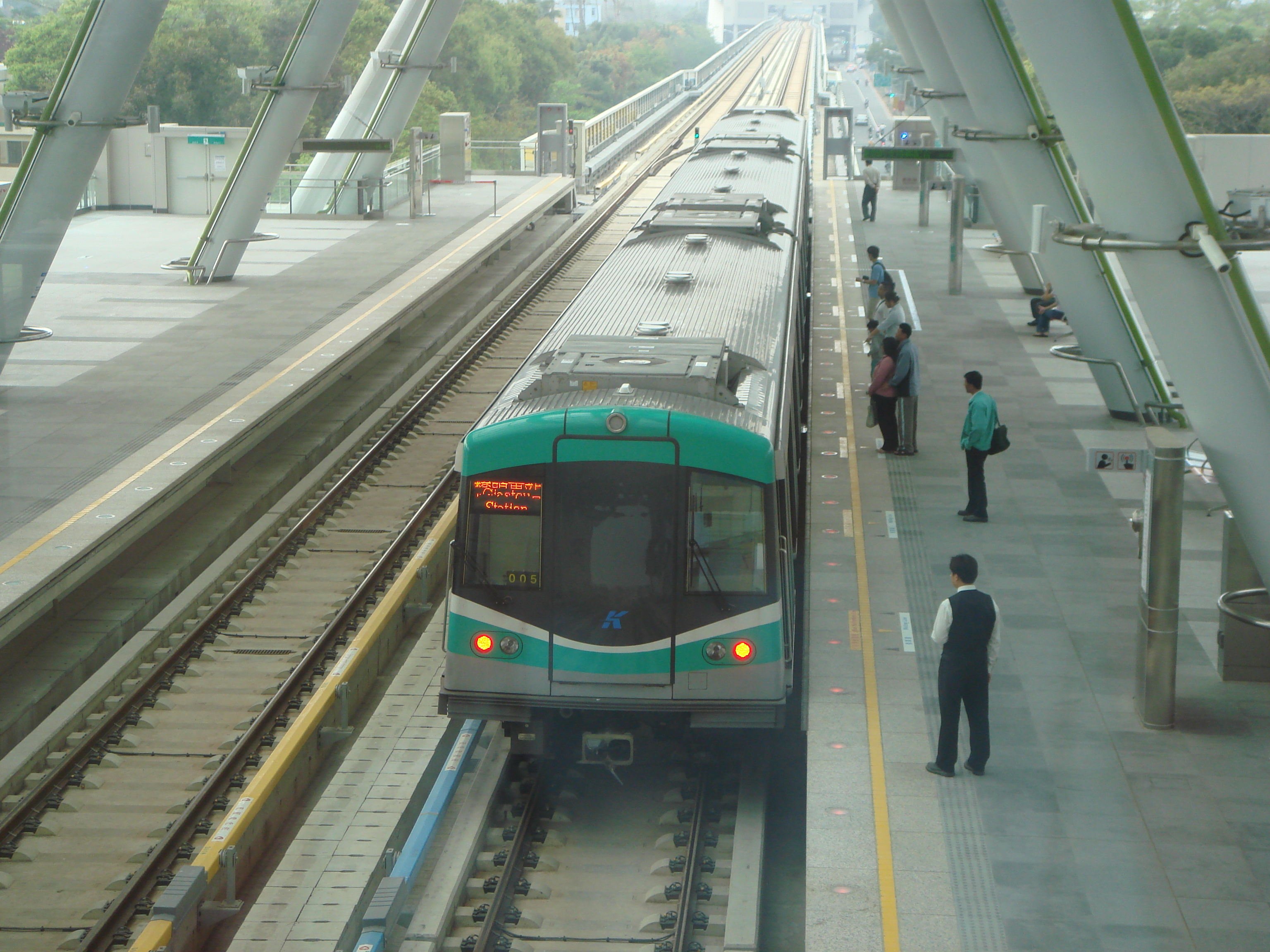 Kaohsiung MRT World Game Station.